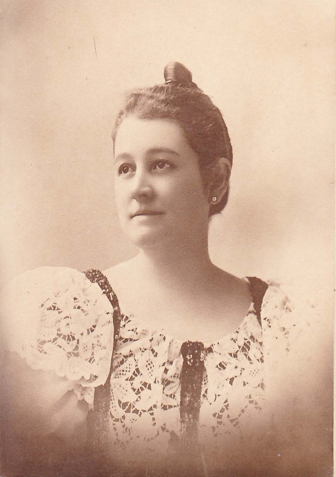 Jennie Crocker, 1898, later Jennie Crocker Fassett who donated monies and her art collection to the Crocker Art Musuem